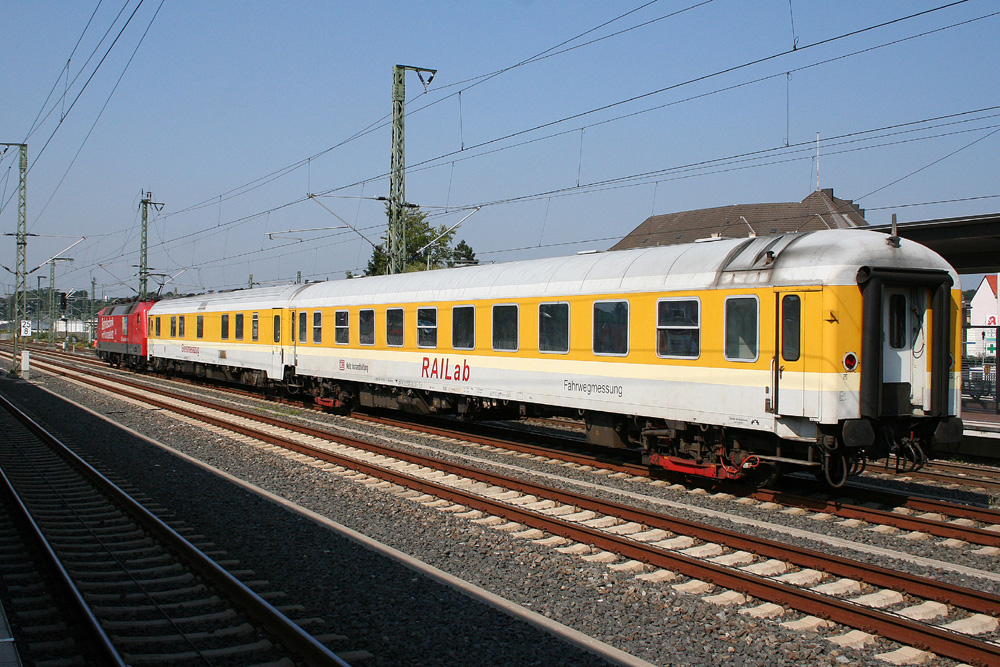 The RAILab, a Deutsche Bahn track measurement train, passing through the station of Siegburg/Bonn.